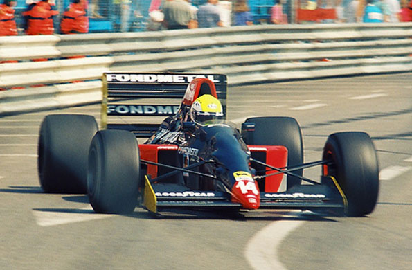 Andrea Chiesa approaching Piscine in Thursday practice of 1992 Monaco Grand Prix.